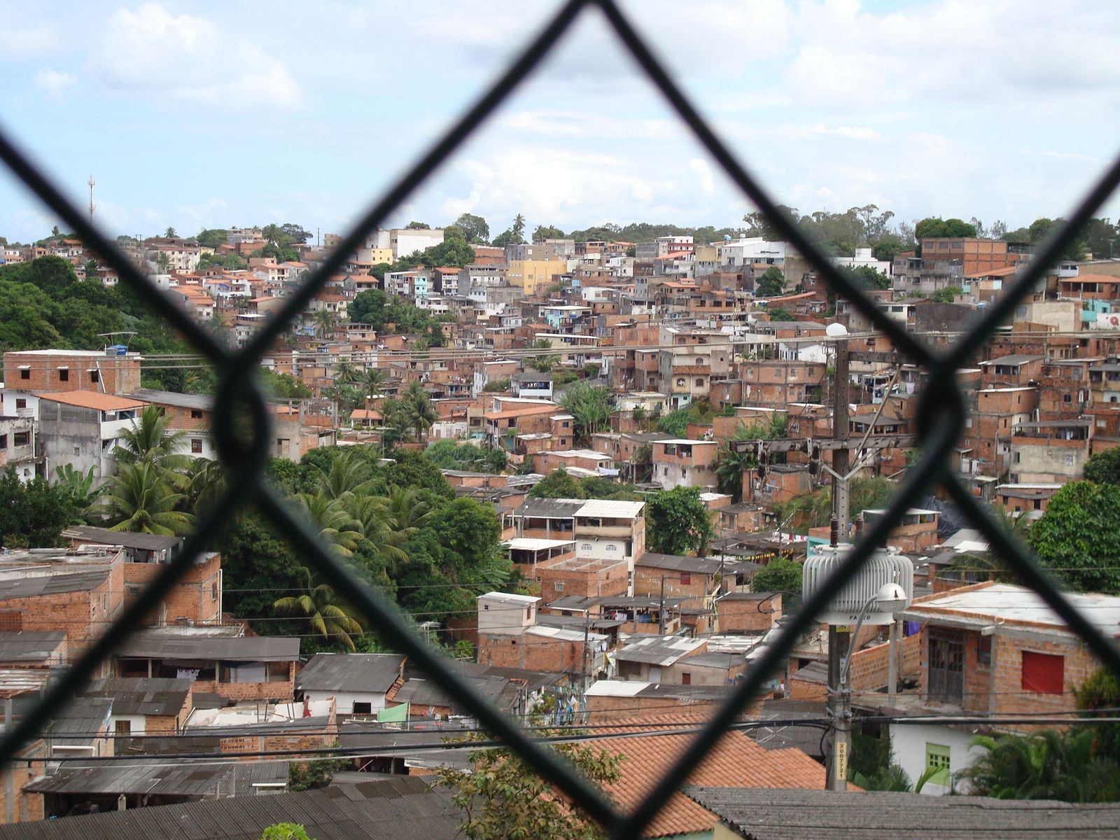 This is a picture of the Tancredo Neves neighborhood in Salvador, Bahia, Brazil. The picture is taken through the fence at CEIFAR, a community project in the neighborhood. This is one of the many "Favelas" or "shanty towns" in Salvador.